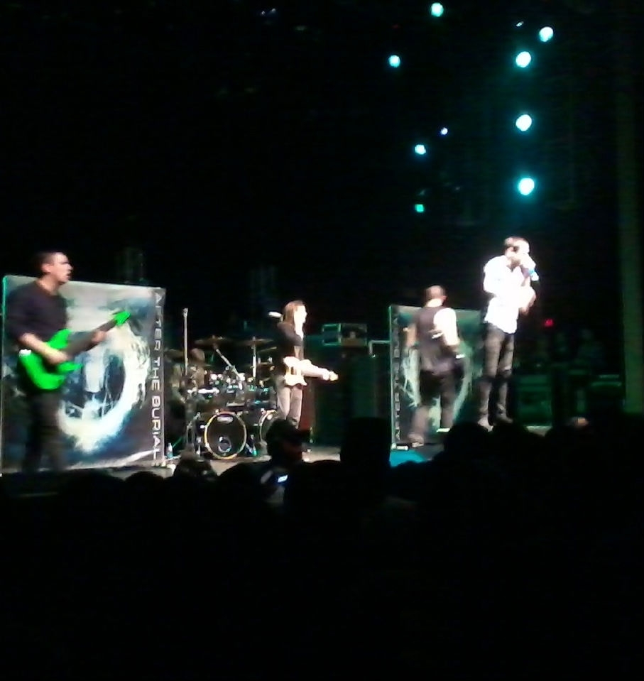 After the Burial performing at 2011's Metalfest V in Anaheim, California.